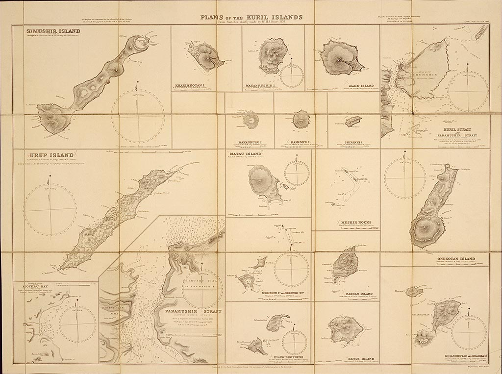 Plans of the Kuril Islands, from sketches chiefly mand by Mr. H. J. Snow, 1893. (London, Royal Geographical Society, 1897, 54×74 cm)